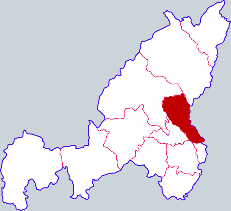 Location of Jia county in Yulin city, Shaanxi province, China